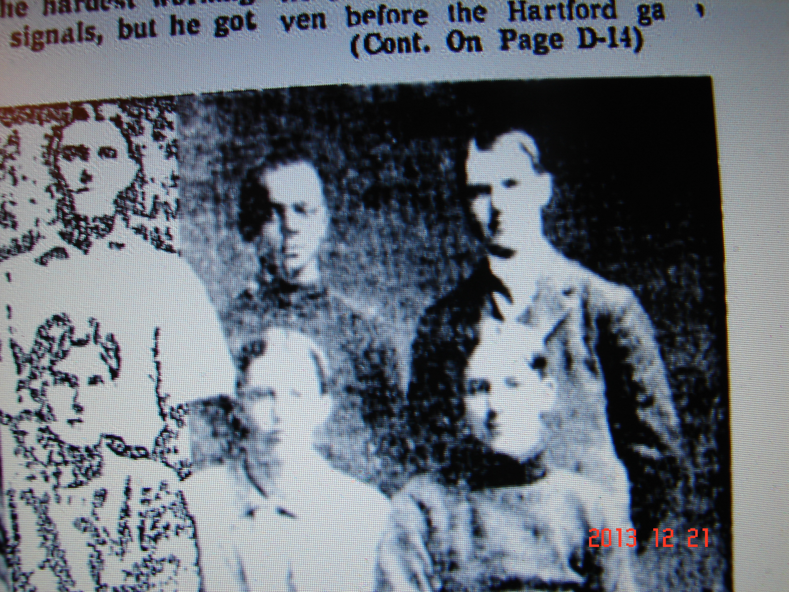 Portion of group picture including Charles Earle 1901